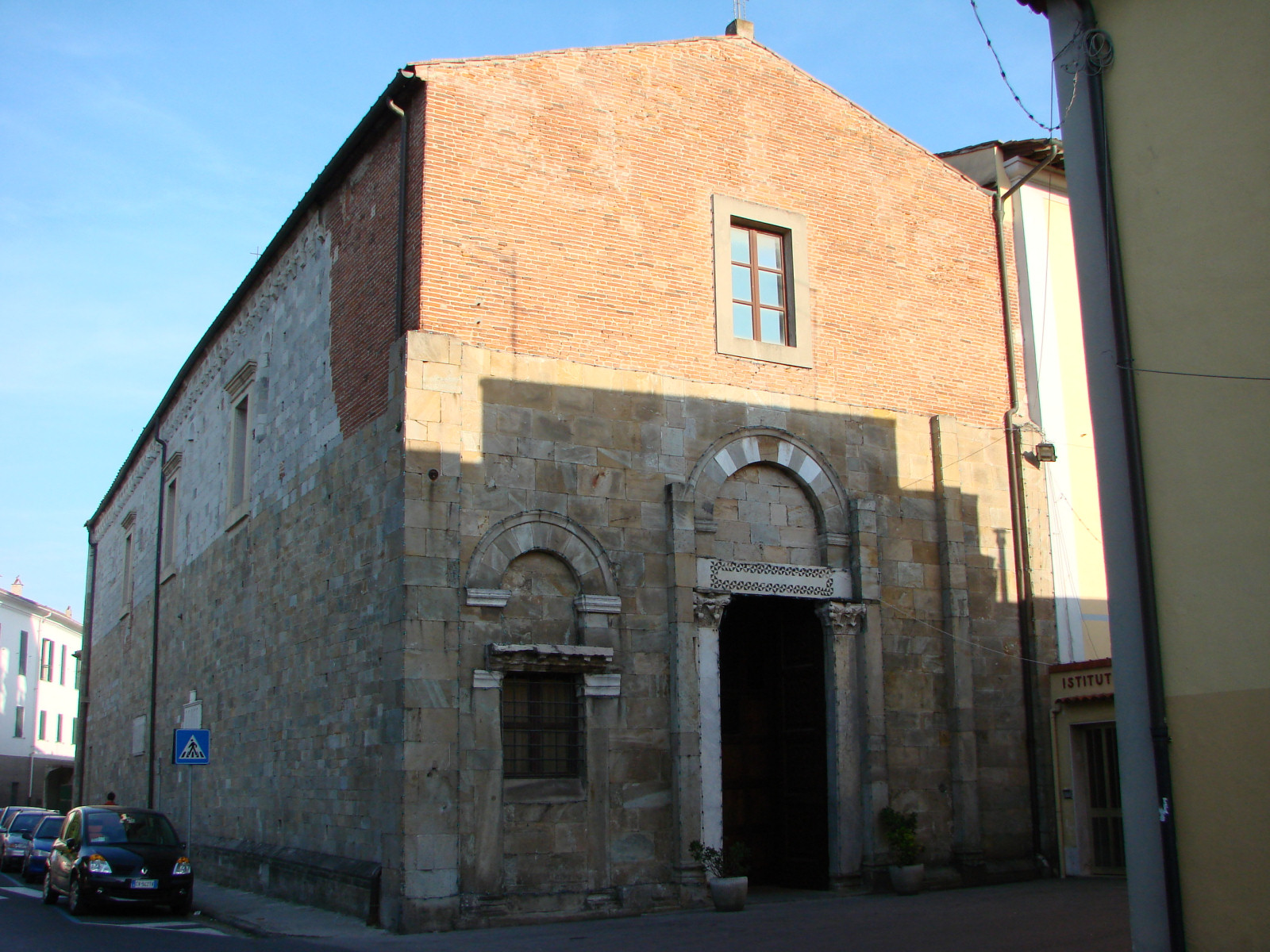 Outside the church of Santi Iacopo e Filippo, Pisa